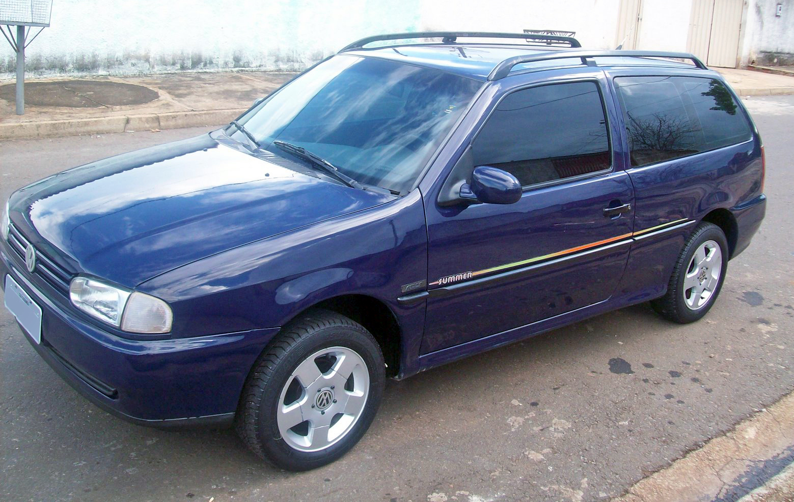 Fairly rare three-door Volkswagen Paratí, "Summer" special edition with 16 valve engine